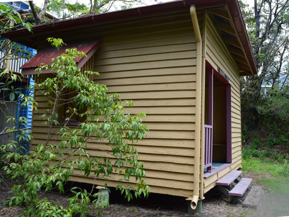 Tennis Shed, from NE (2015)